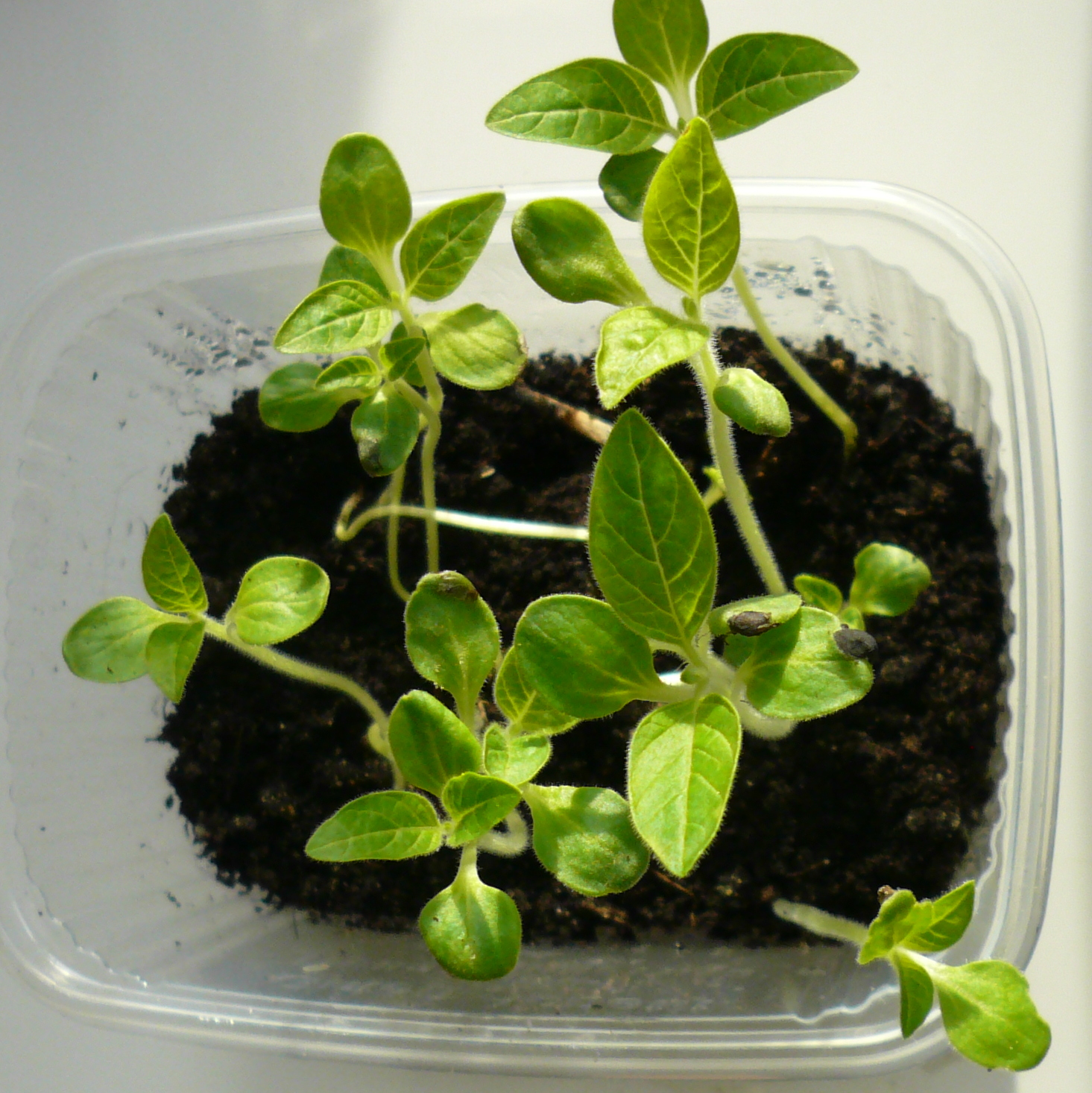 Sesame seedlings